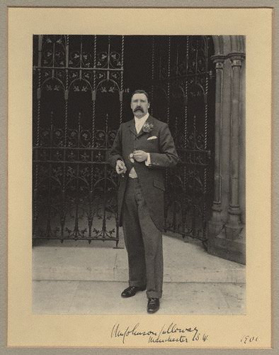 William Johnson Galloway (1866-1931)